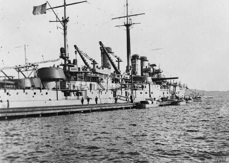 The French Navy in the Mediterranean, 1914-1918 The French battleship COURBET with LA FRANCE in the background in Toulon, 24 September 1916.